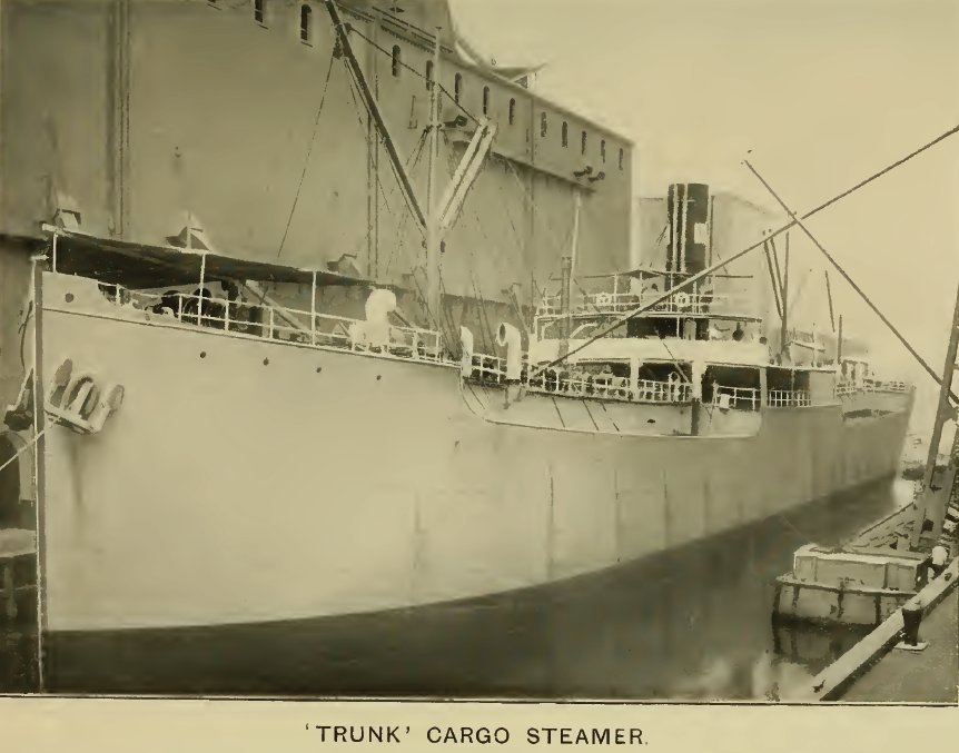 Trunk deck ship.